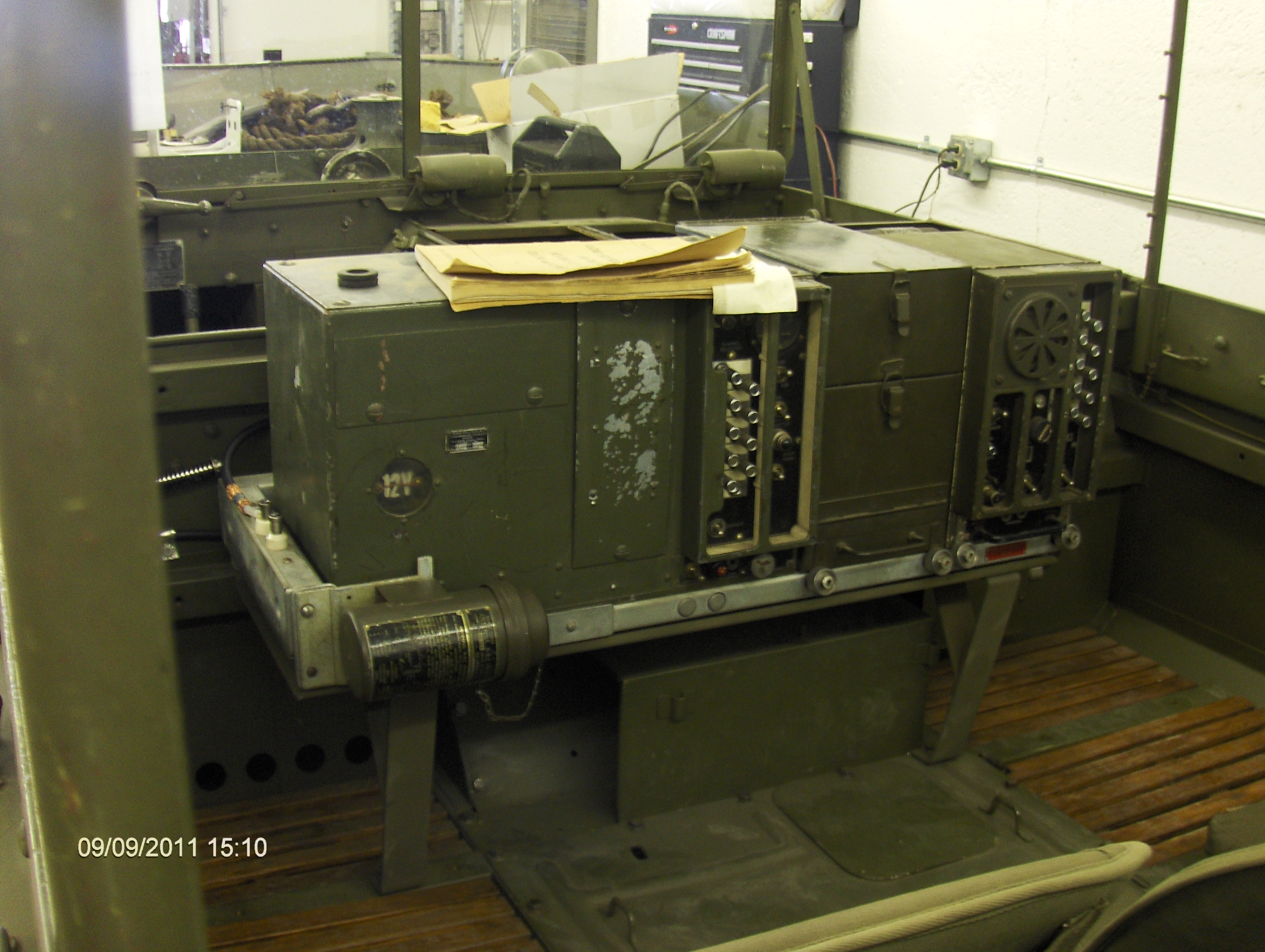 SCR-508 Radio mounted in M29C Weasle